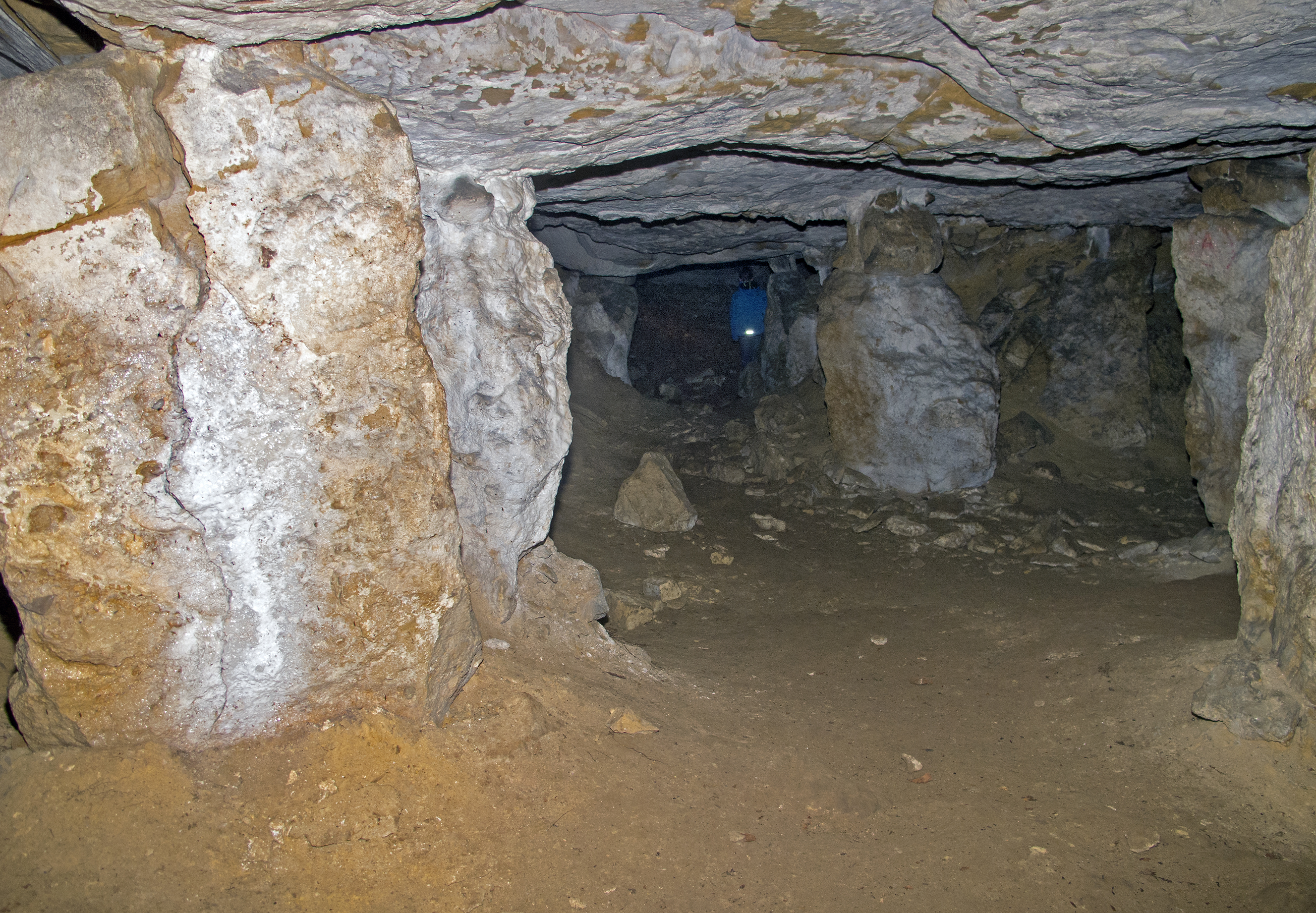 View on a typical gallery of the "Mamerleeën"